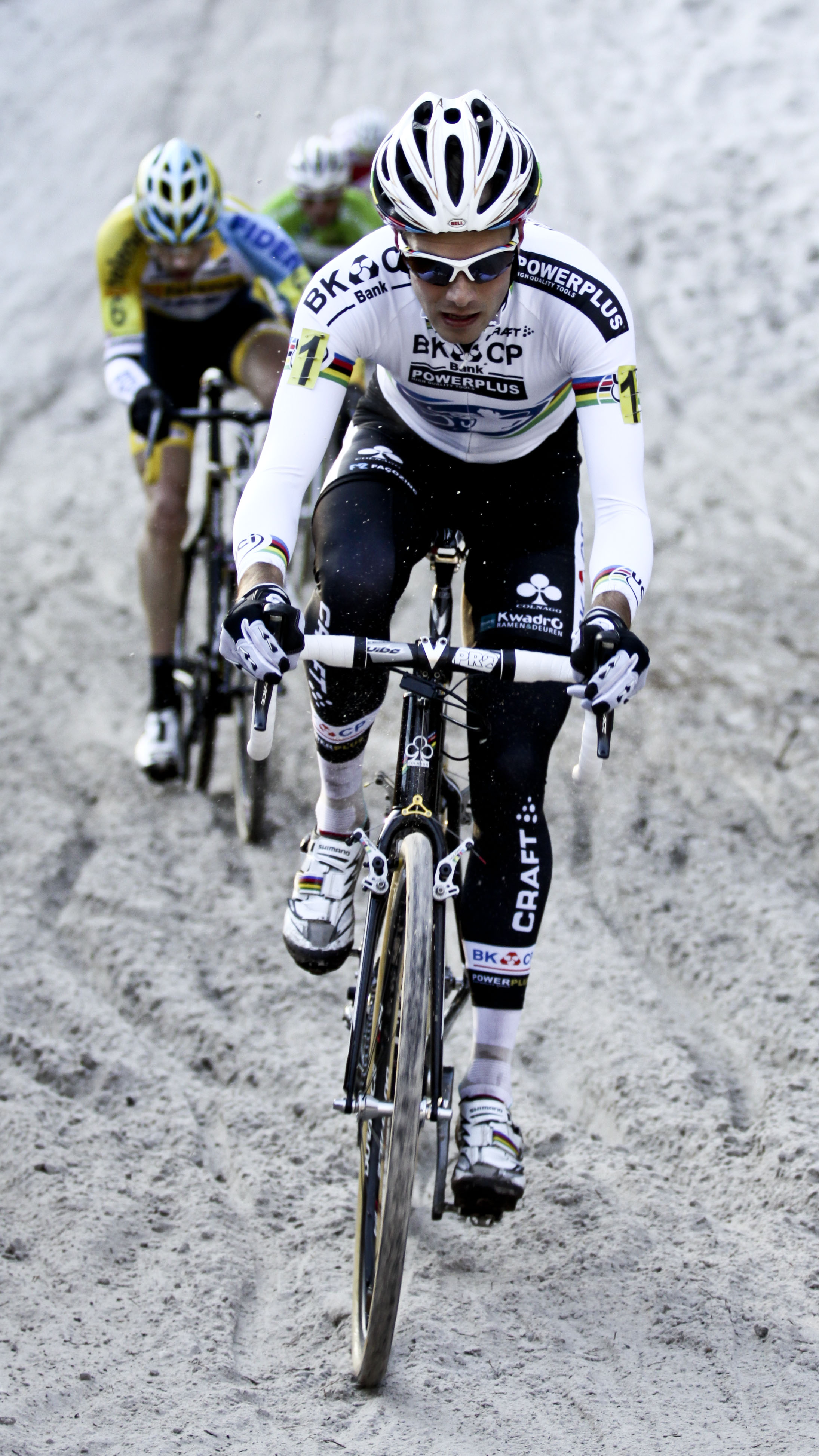 Niels Albert at the 2013 Belgian Championship Cyclo-cross in Mol.